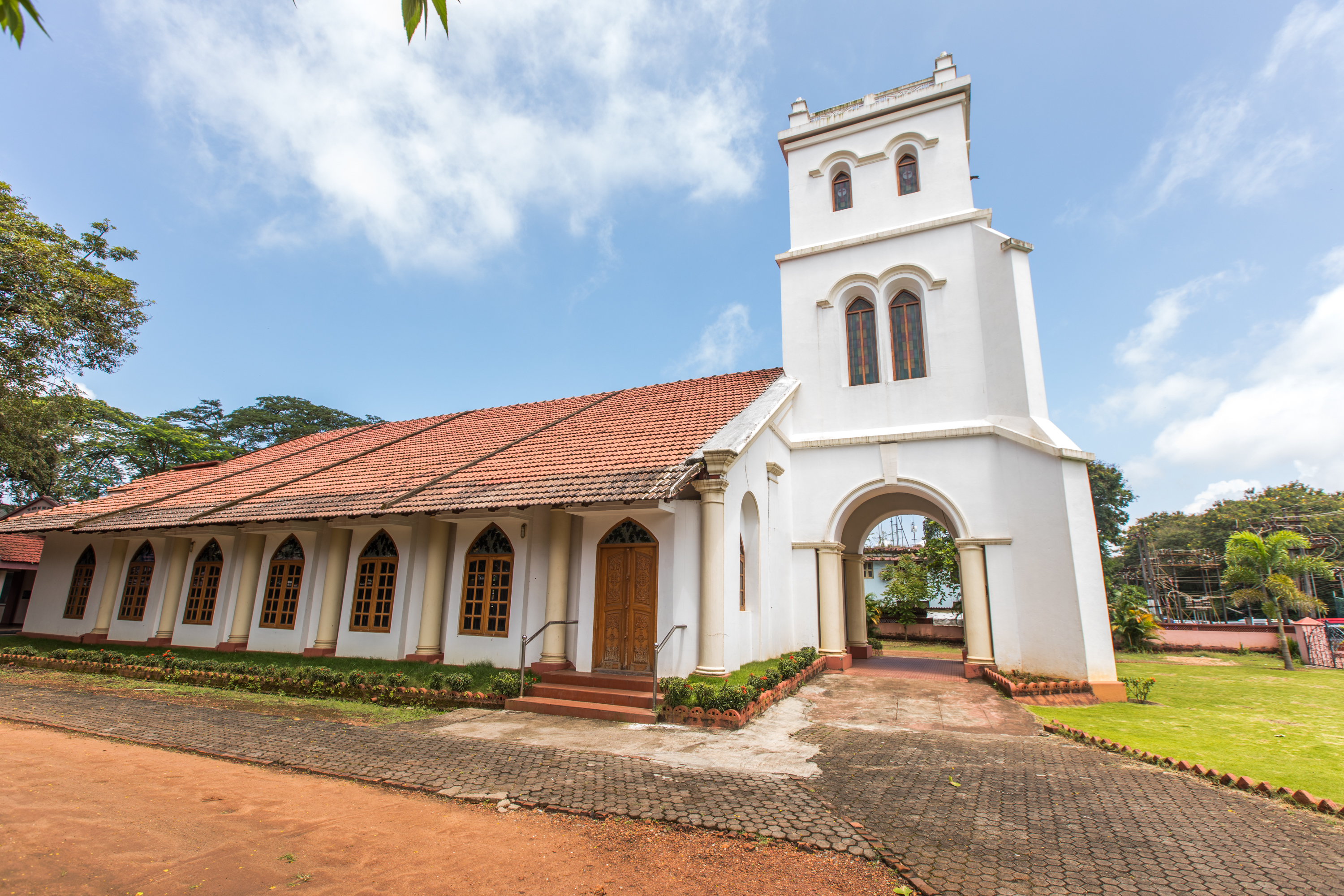 Side view of the St. Pauls Church, Pandeshwar, Mangalore